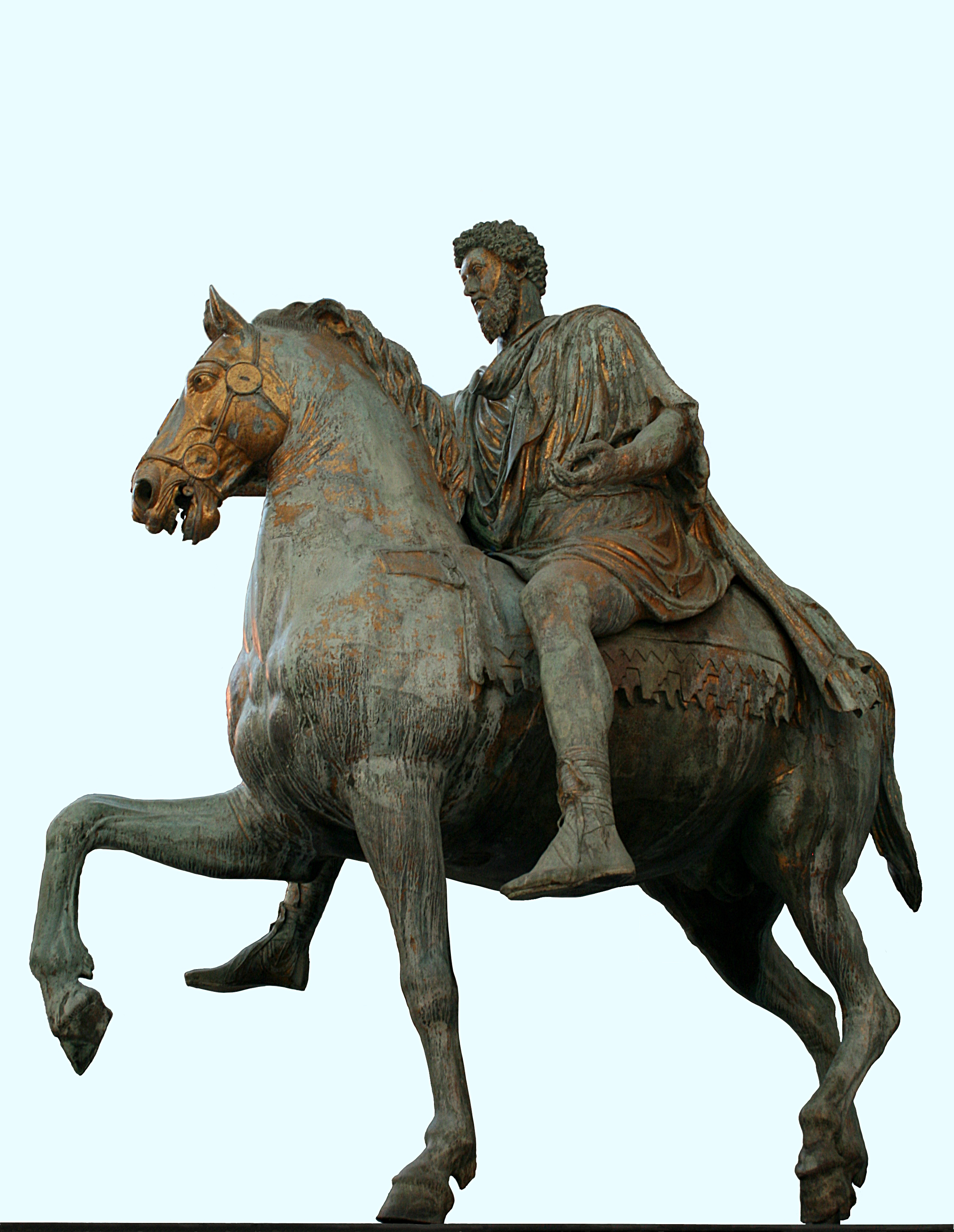 Equestrian statue of Marcus Aurelius, roman artwork.